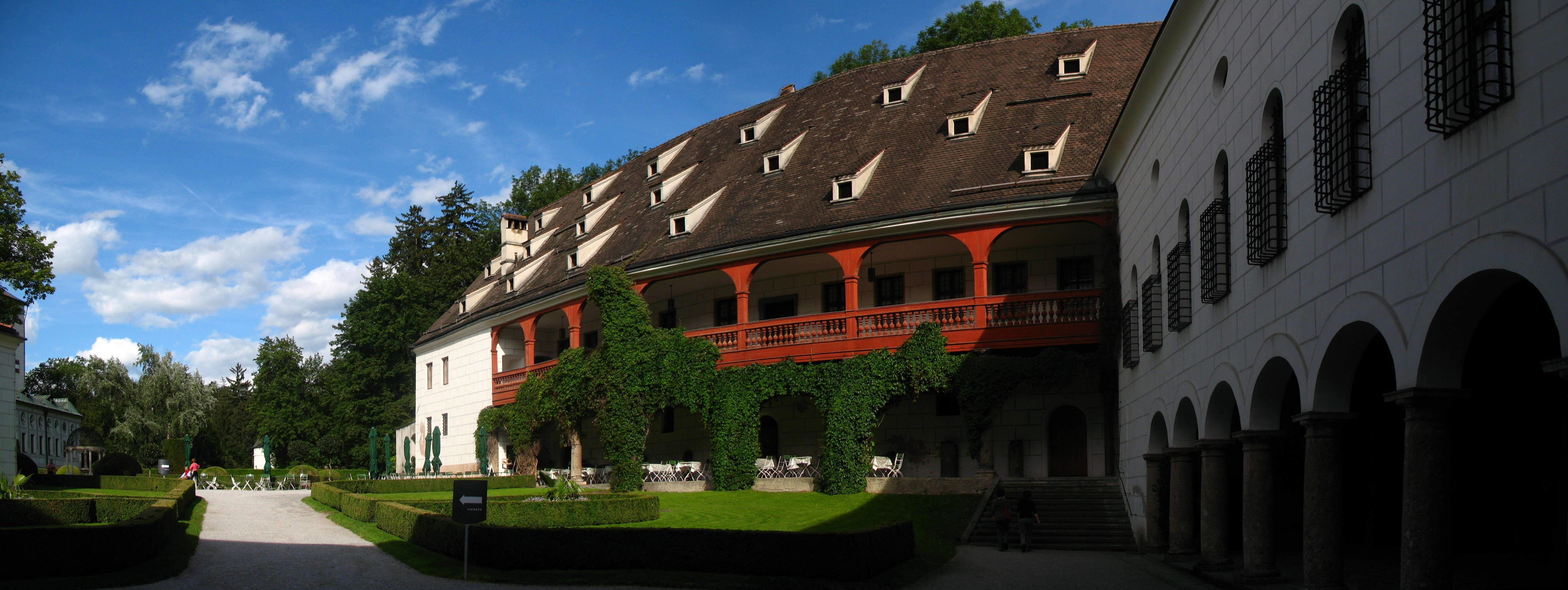 Ambras Castle, Innsbruck, Austria